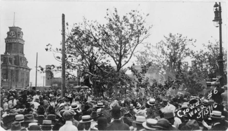 Title: Crowd of people gathered in street to watch the lynching of Jesse Washington, several men in tree appear to be securing chain or rope, Waco, Texas Abstract/medium: 1 photographic print (postcard)